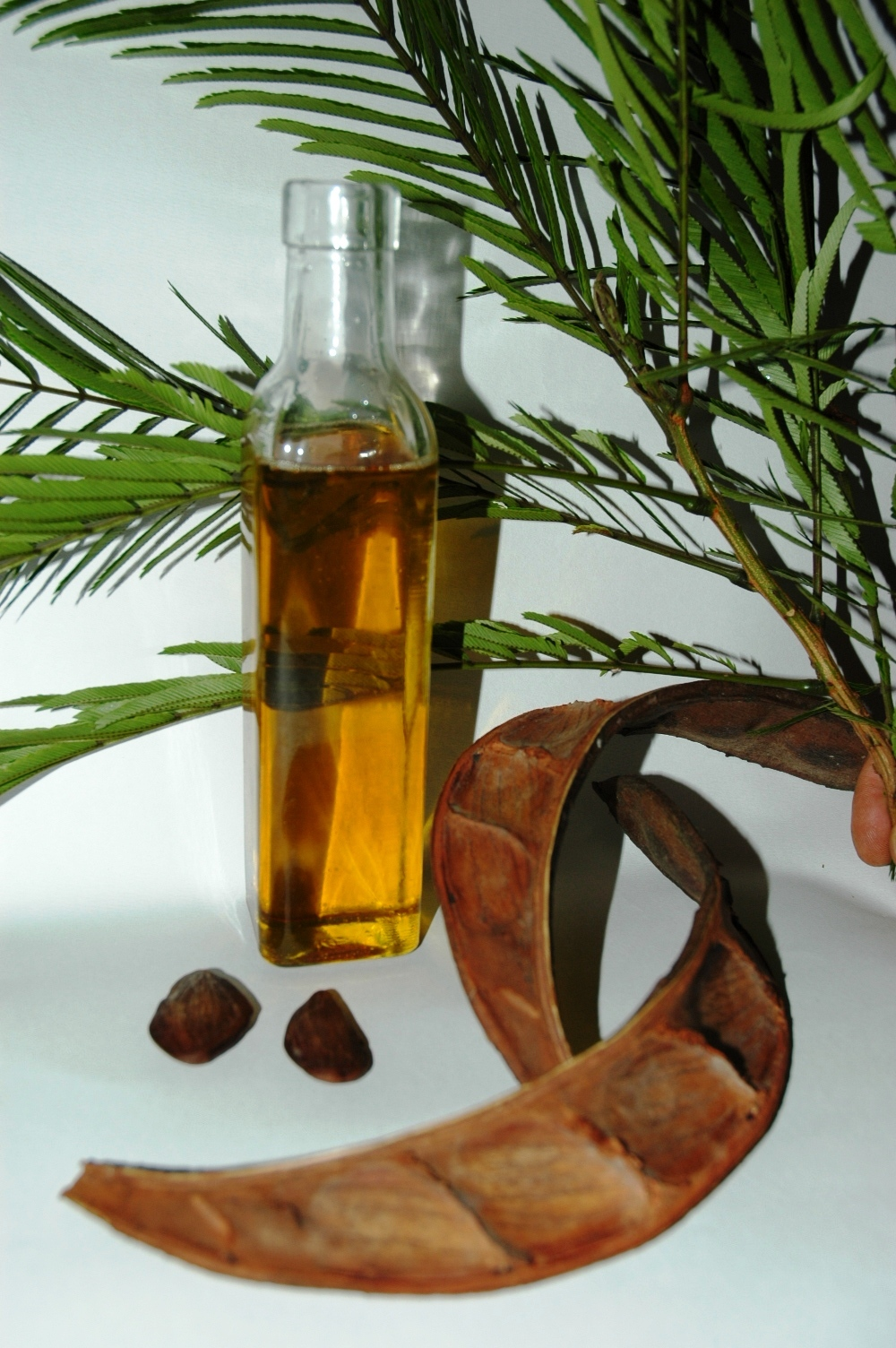 Pracachy or Pentaclethra macroloba oil